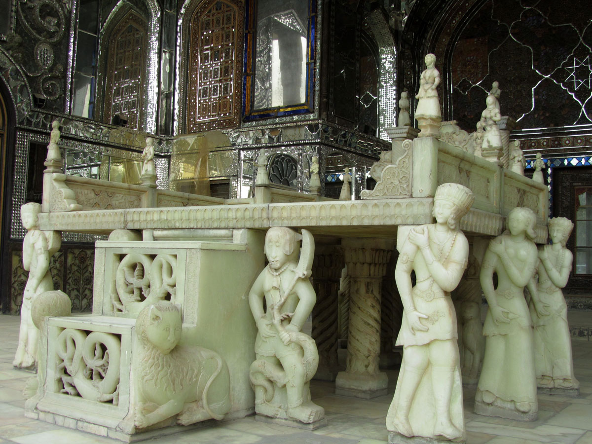 Marble Throne Terrace